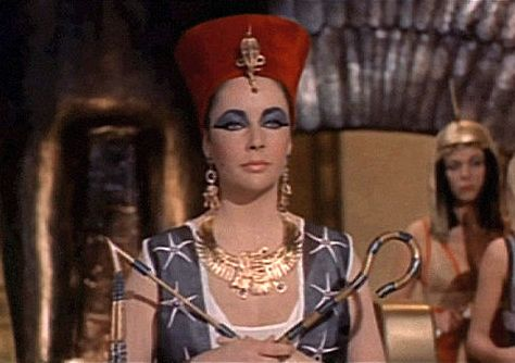 Cropped screenshot of Elizabeth Taylor from the trailer for the film Cleopatra.